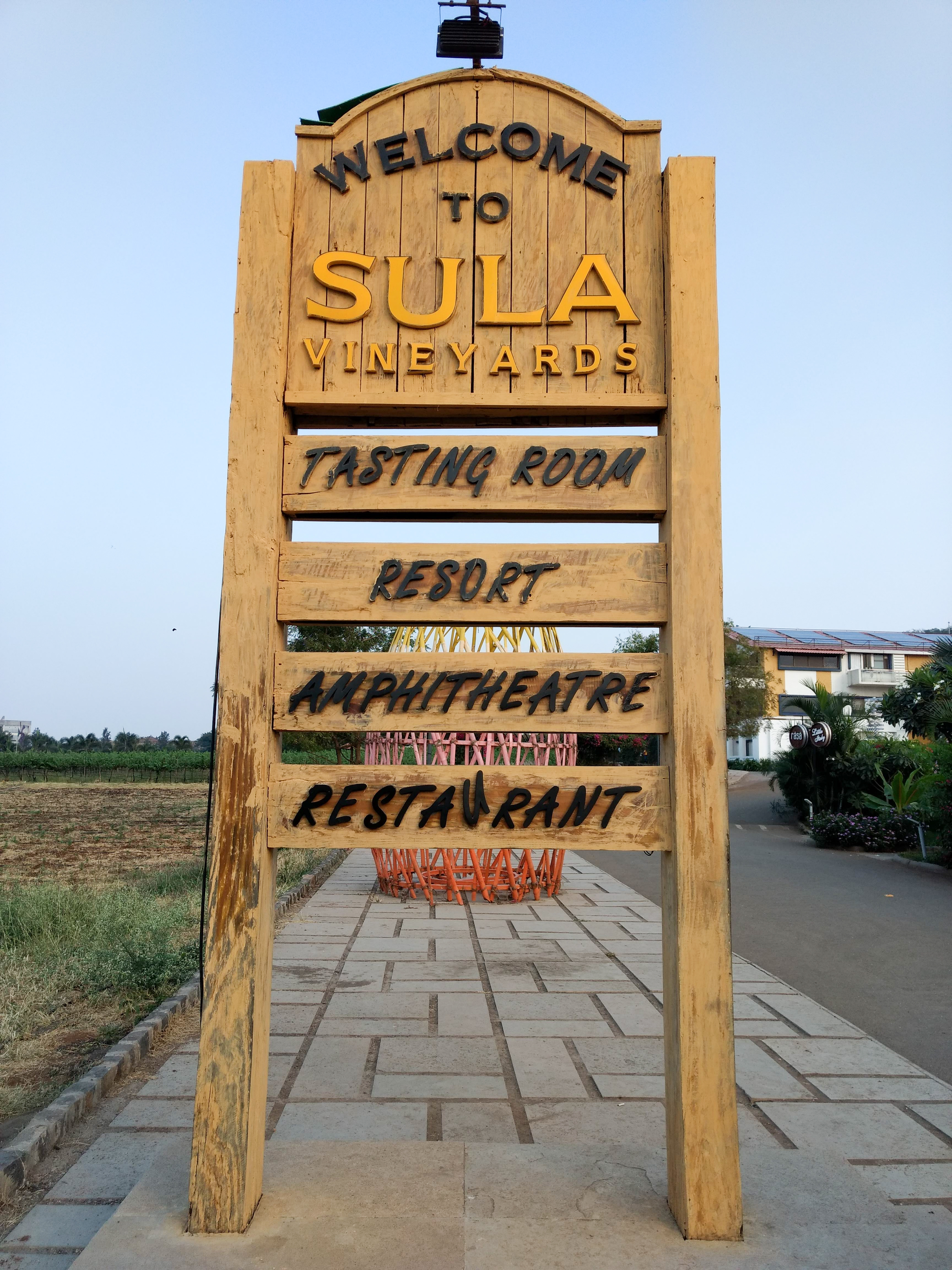 Sula Vineyard Sign board